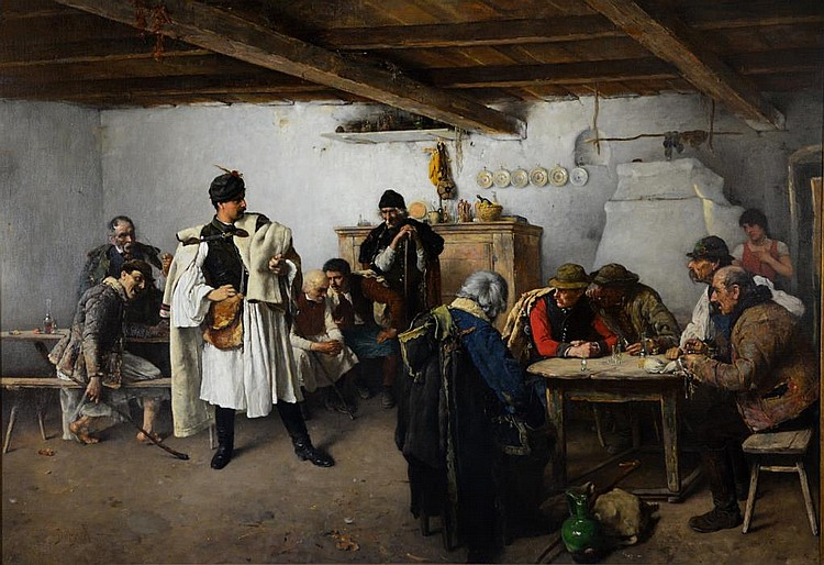 The Challenge